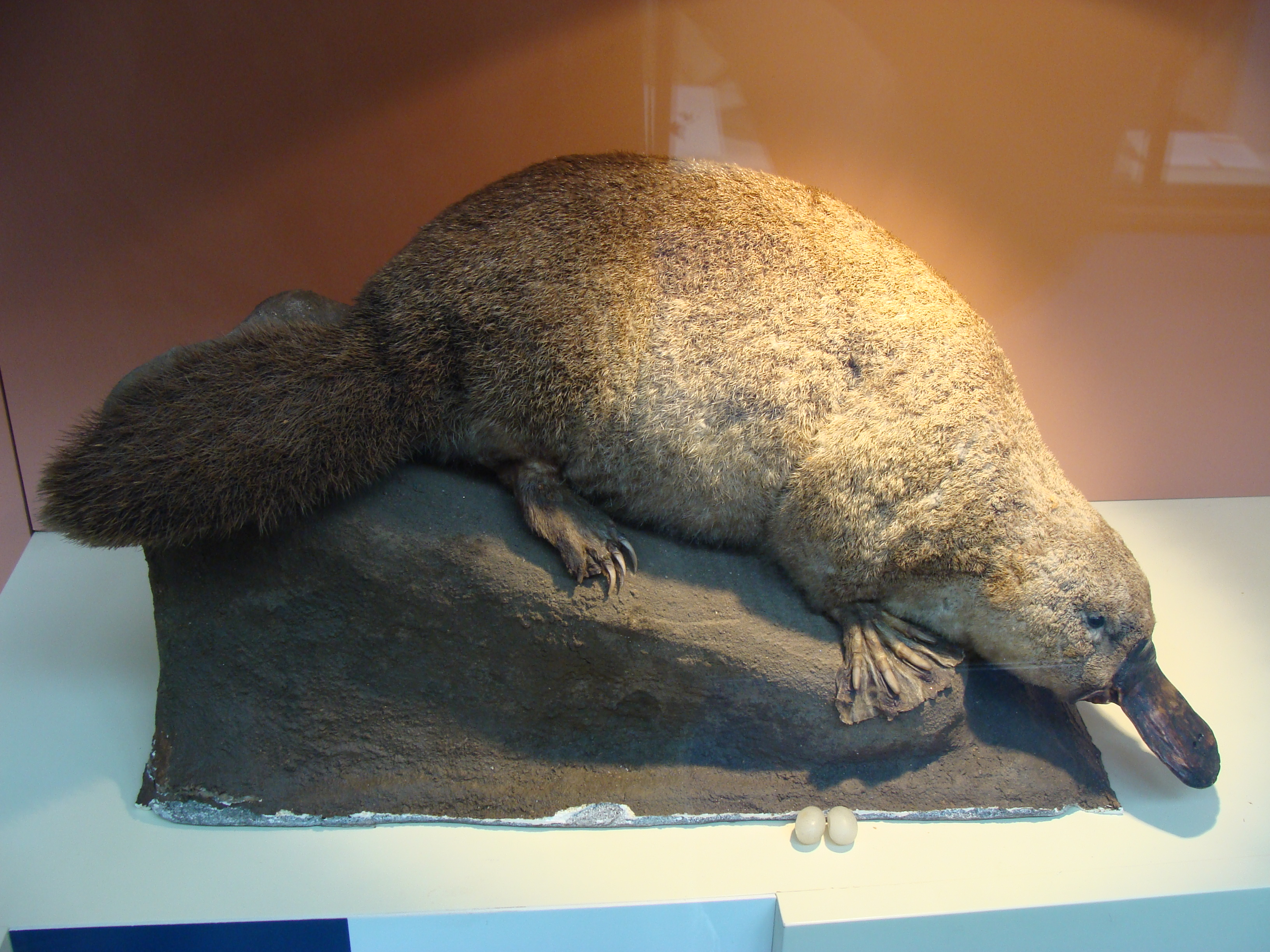 Ornithorhynchus anatinus (Duck-billed platypus) in the Natural History Museum of London